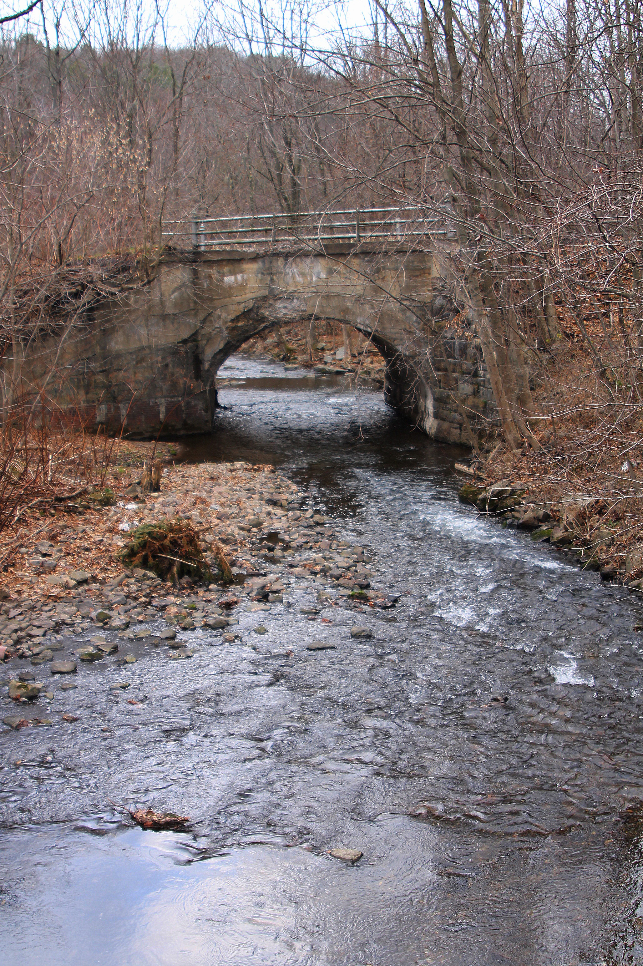 Little Mahanoy Creek, a major tributary of Mahanoy Creek, looking downstream in Gordon, Pennsylvania